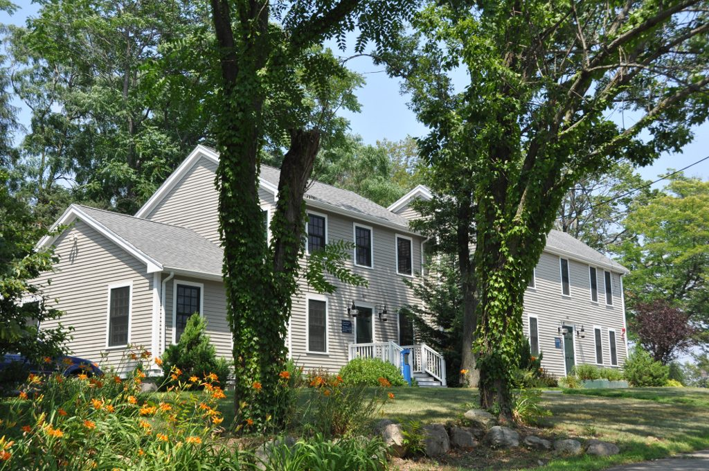 A photograph of the historic Samuel Harrington House in Waltham, Massachusetts.